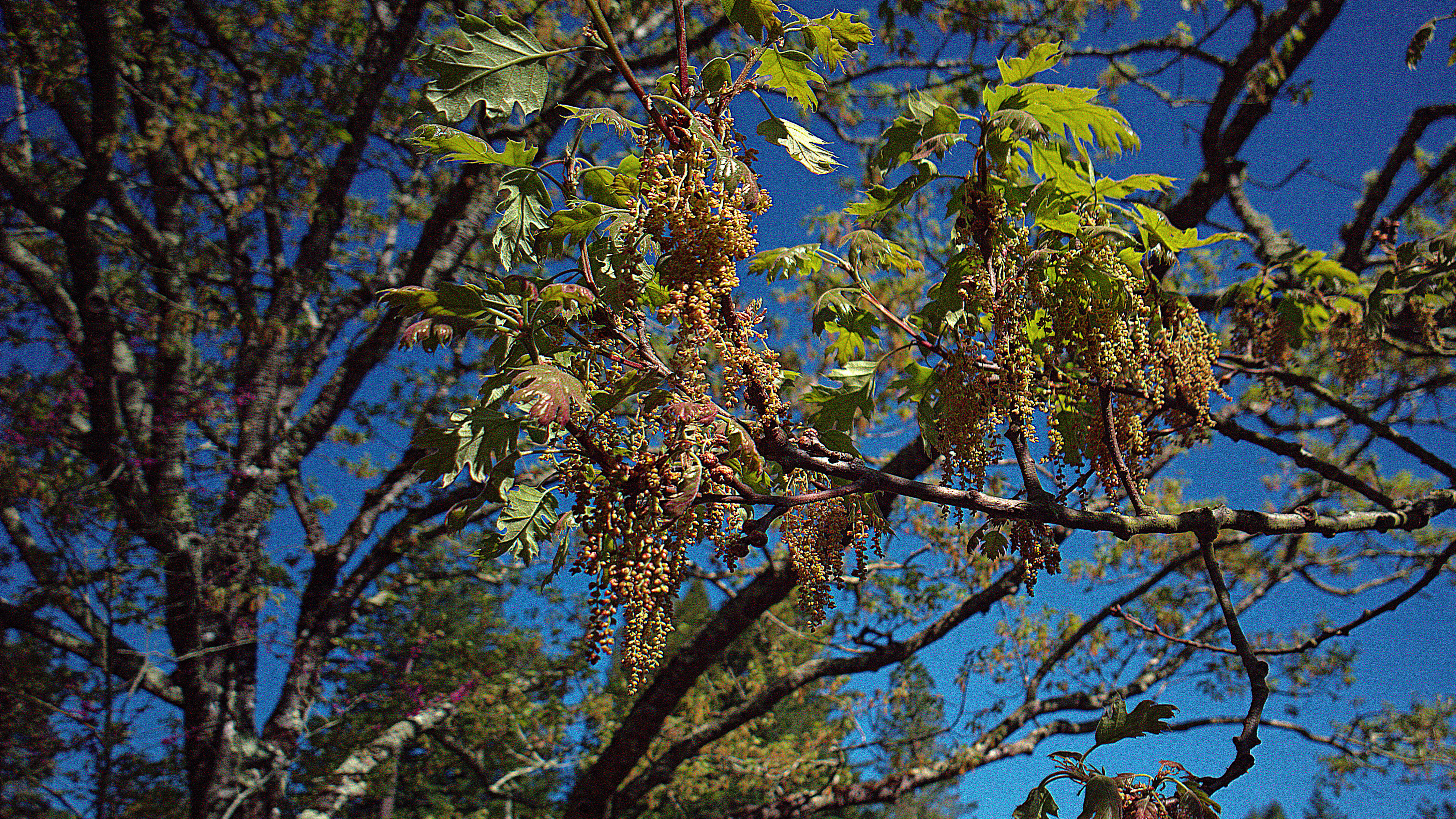 Quercus kelloggii— California black oak. Probably the most valuable of all California trees for the wildlife of the state. California black oak provides shelter and food for hundreds of species of birds, mammals, reptiles, and other forms of life. The species grows throughout most of California and into Oregon and Baja California, except for the Great Valley and desert regions. It can be found from near sea level to about 2700 meters. Wind-clipped specimens are sometime regarded as a form as are stunted shrubs caused by edaphic and environmental reasons. Once a widely harvested hardwood timber tree, production has declined dramatically because of over-harvesting as well as U. S. Forest Service policy throughout much of the early 20th century that regarded Q. kelloggii as a "weed" tree to be girdled or otherwise destroyed in coniferous forest. Photographed at Regional Parks Botanic Garden Located in Tilden Regional Park near Berkeley, CA.